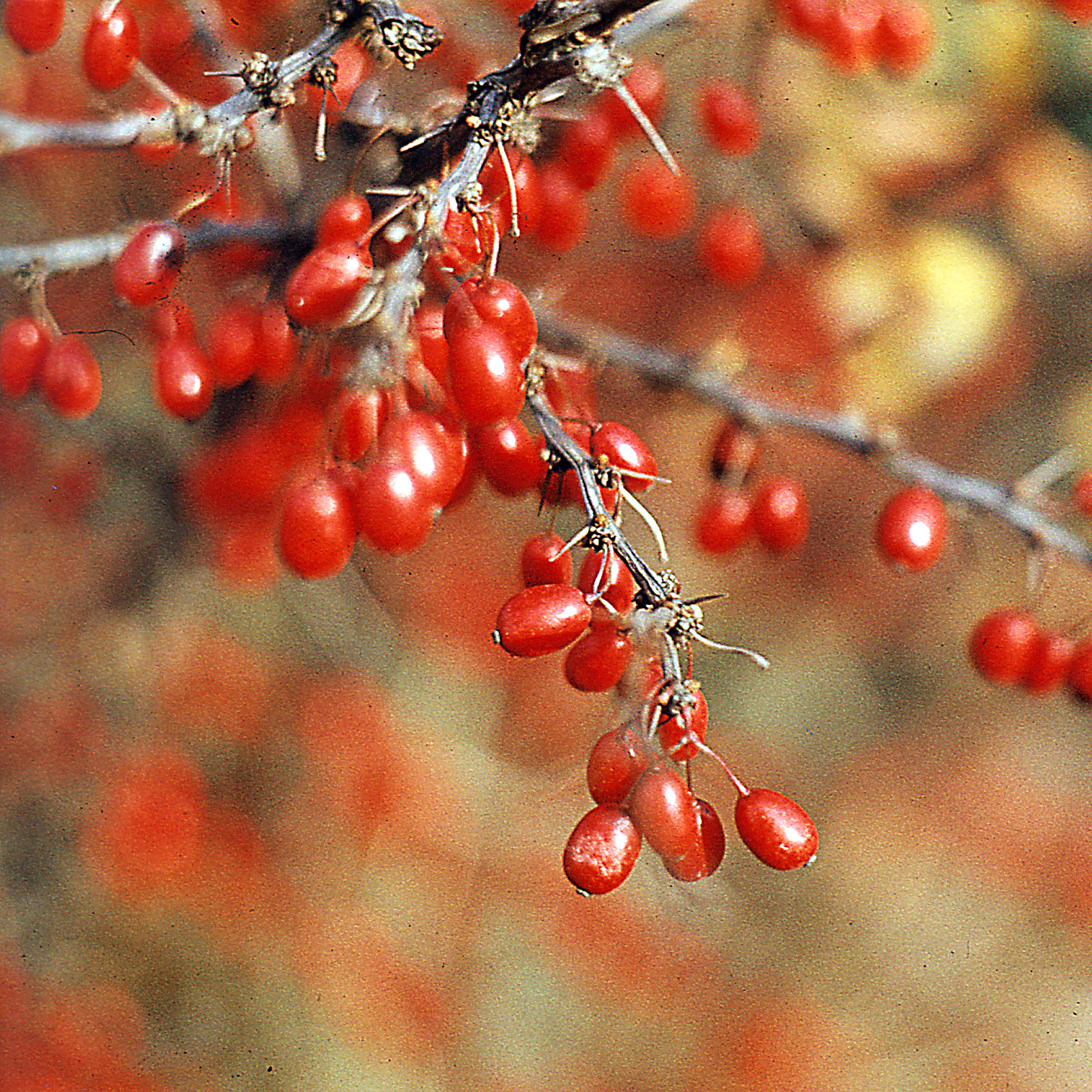 Berberis thunbergii winter aspect.